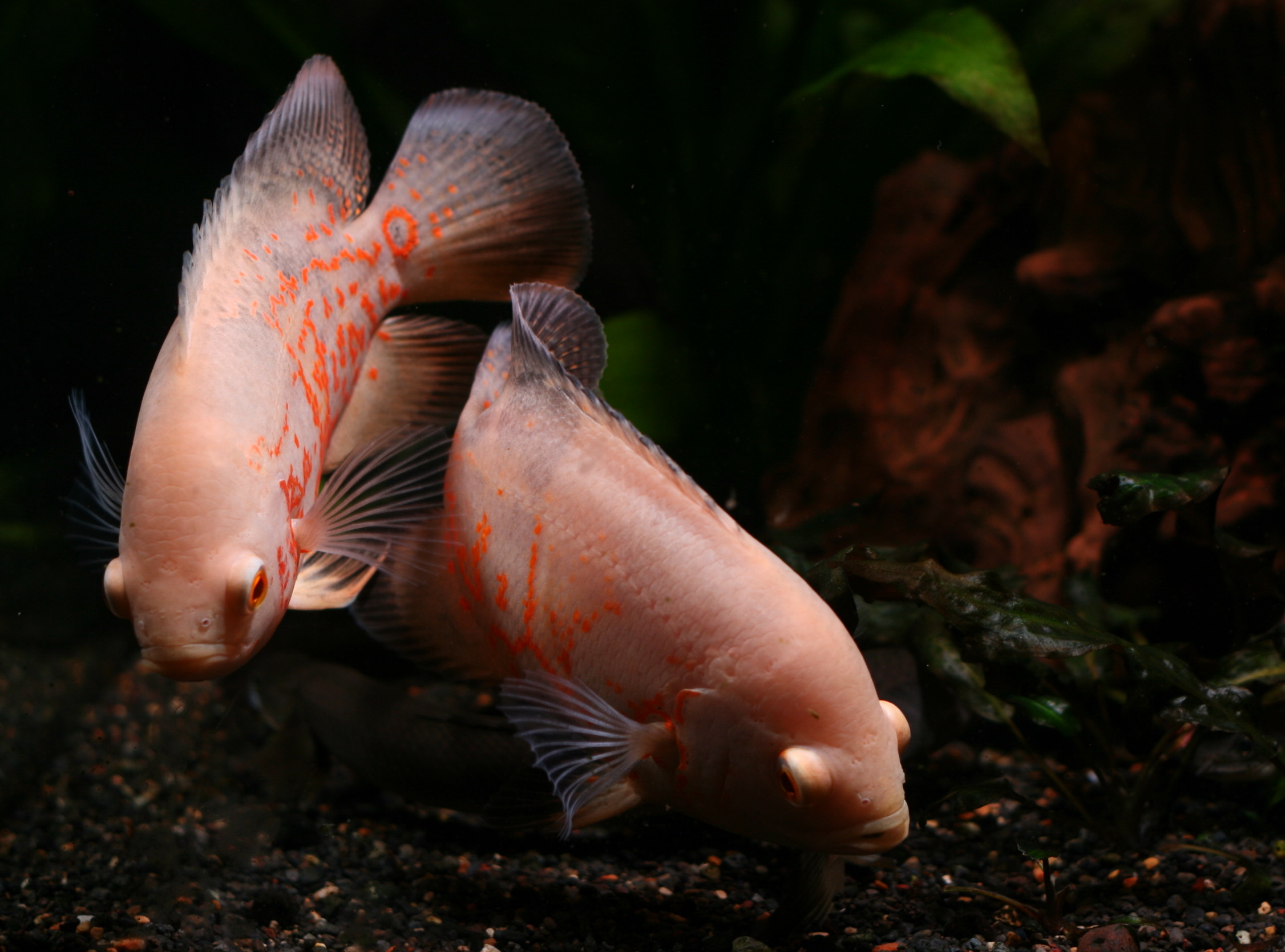 this photo won in a photo contest